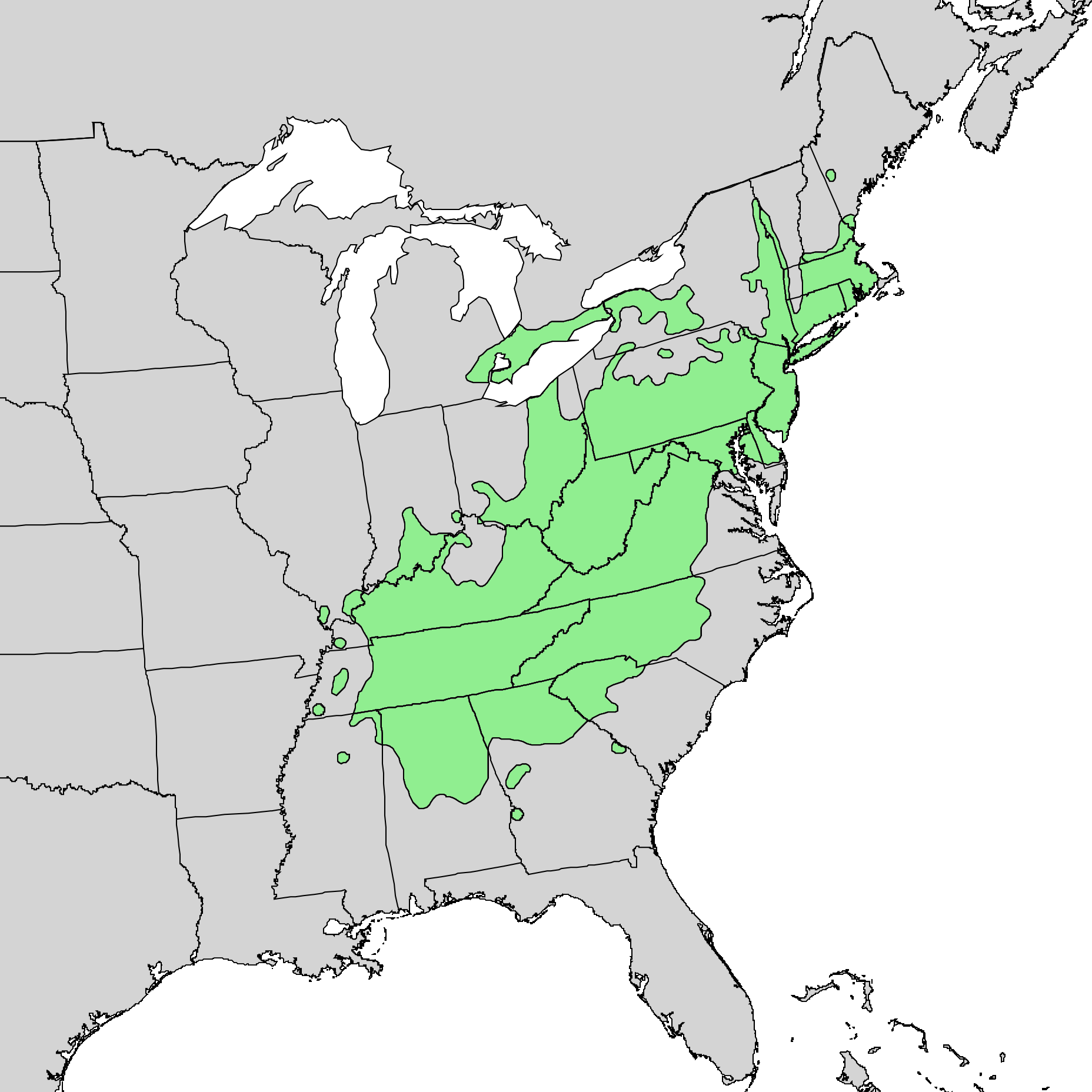 Quercus montana Willd. (Chestnut Oak) distribution map